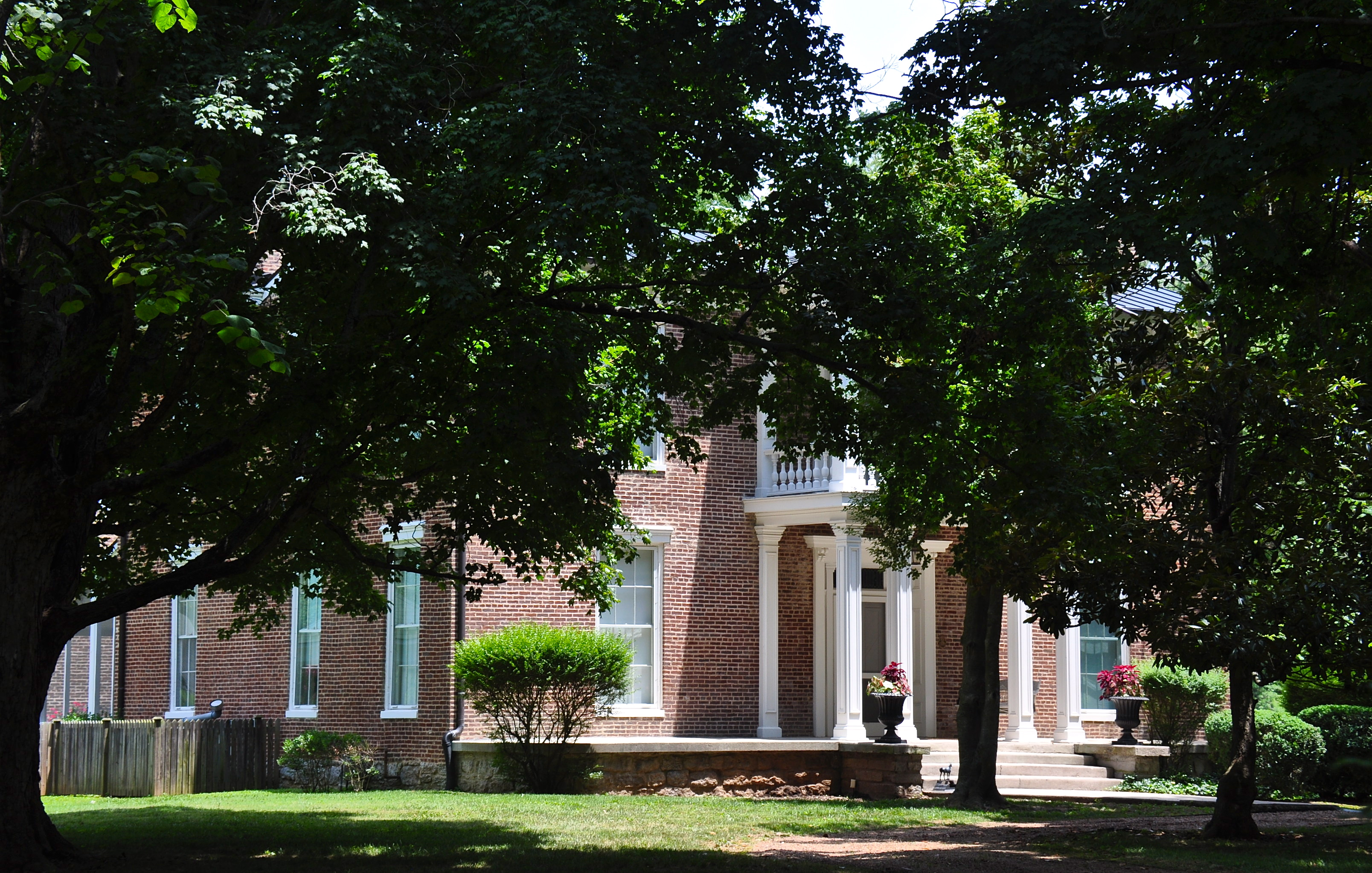 Located at Smyrna, Rutherford County, Tennessee.